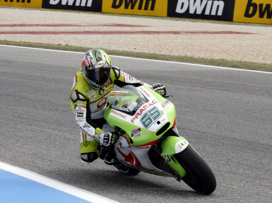 Loris Capirossi 2011 Estoril